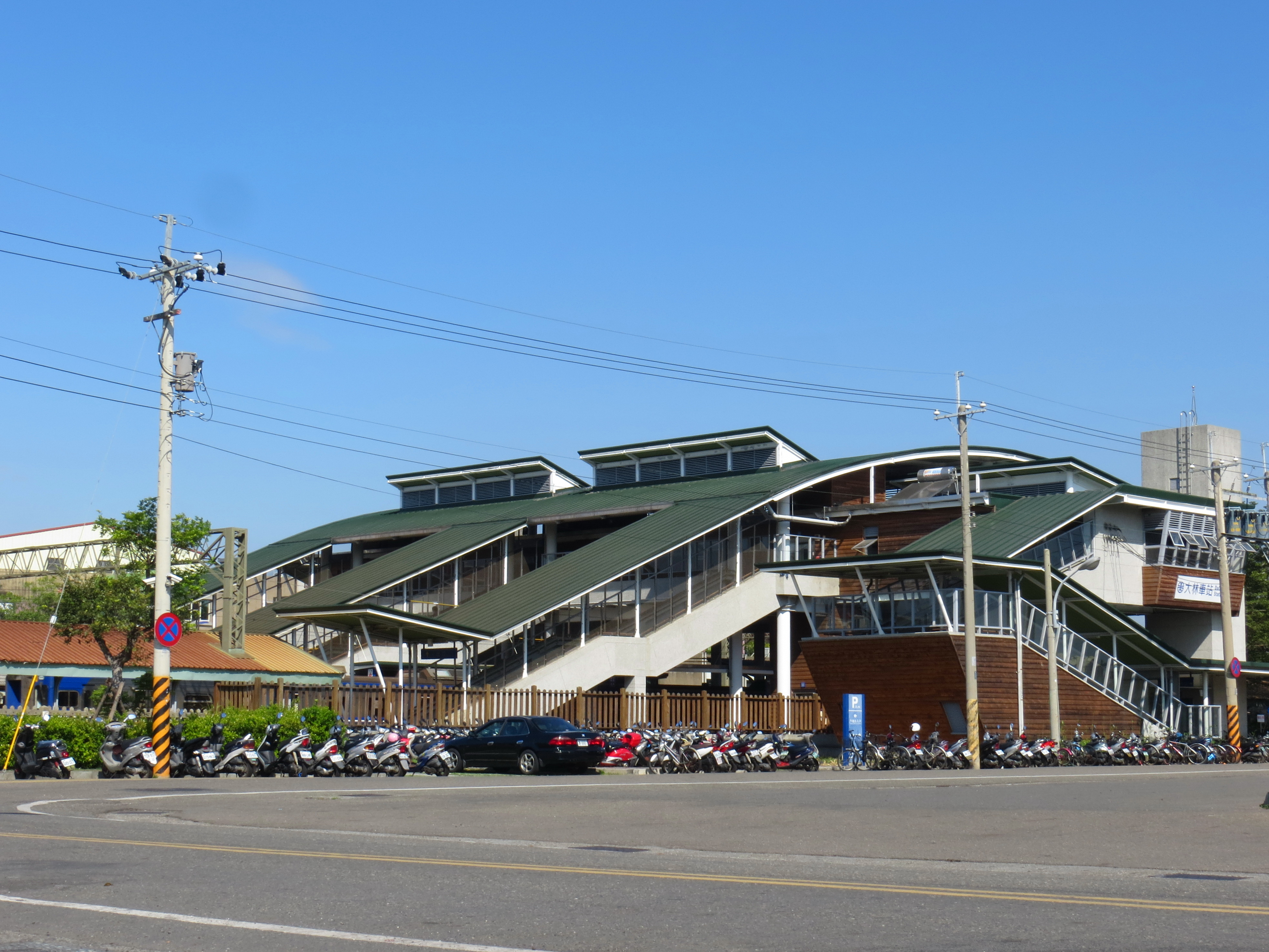 Back Station of Dalin Station, Dalin, Chiayi, Taiwan.